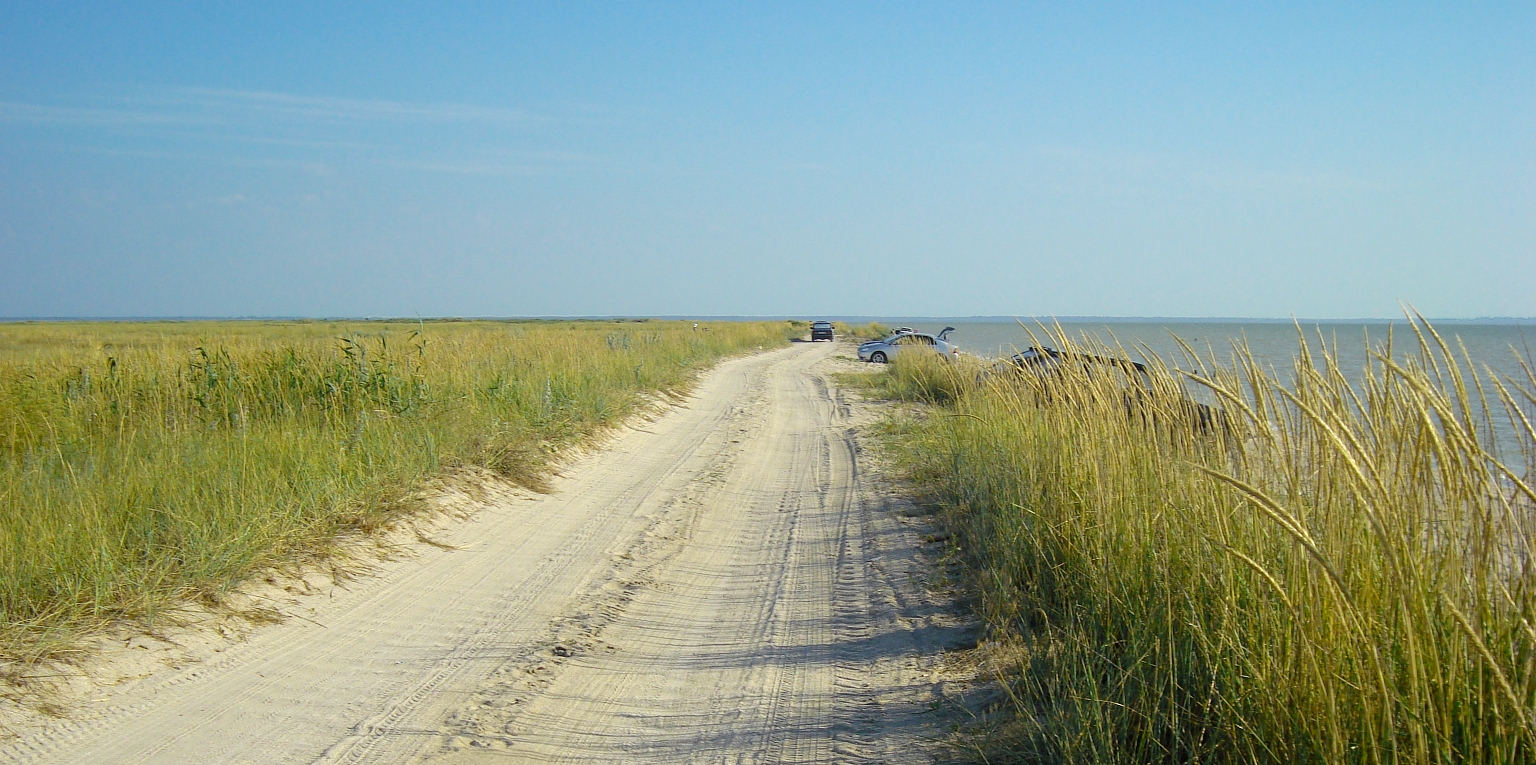 Glafirovskaya spit. Near village Glafirovka, Russia. Sea of Azov.